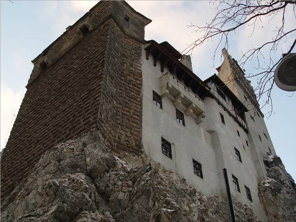 Bran Castle in Romania